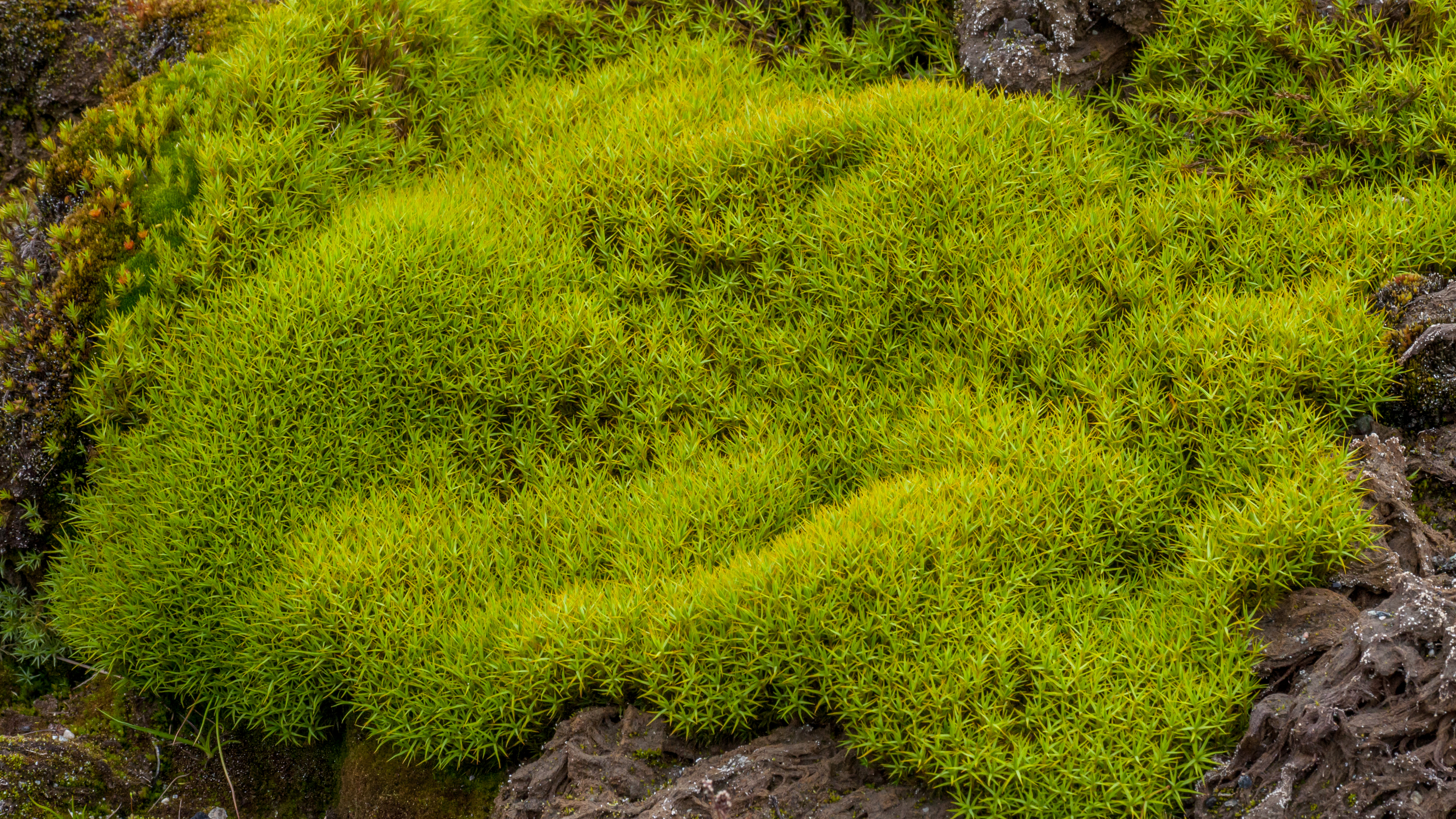 In summer the tundra of Svalbard is covered with a low-growing but lush flora. Moss grows abundantly especially in very humid areas such as the ice wedges.